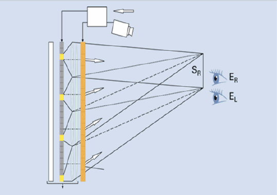 Stereo TV system.